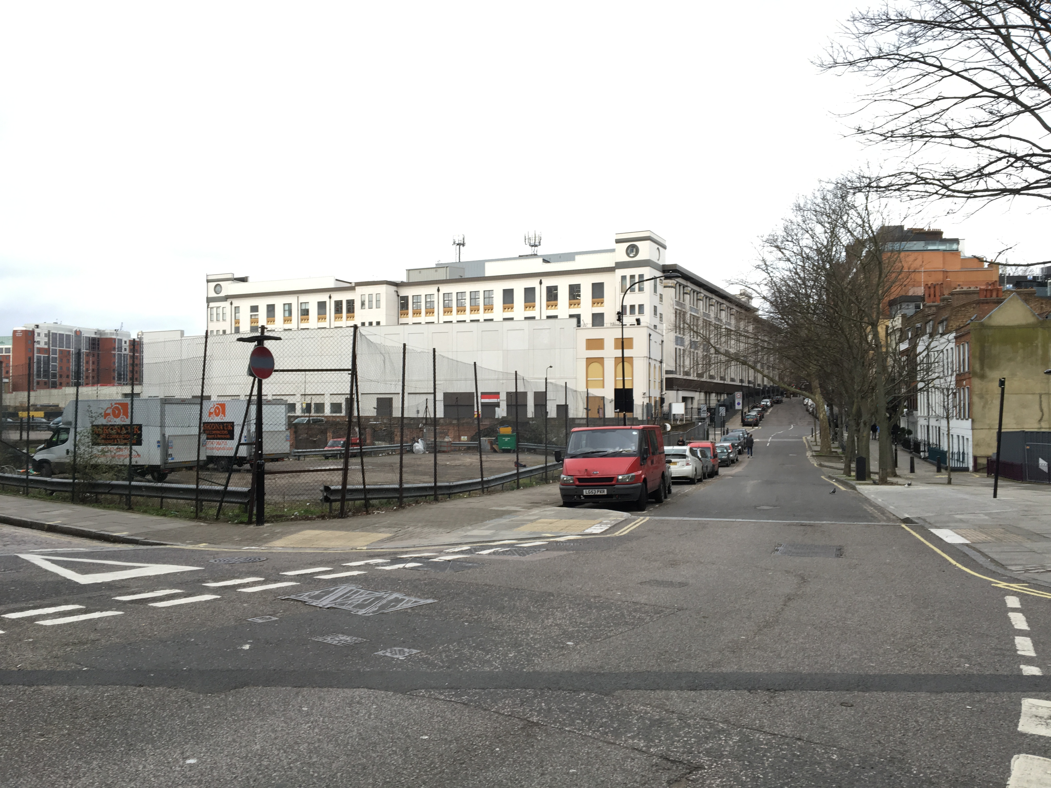 Mount Pleasant road